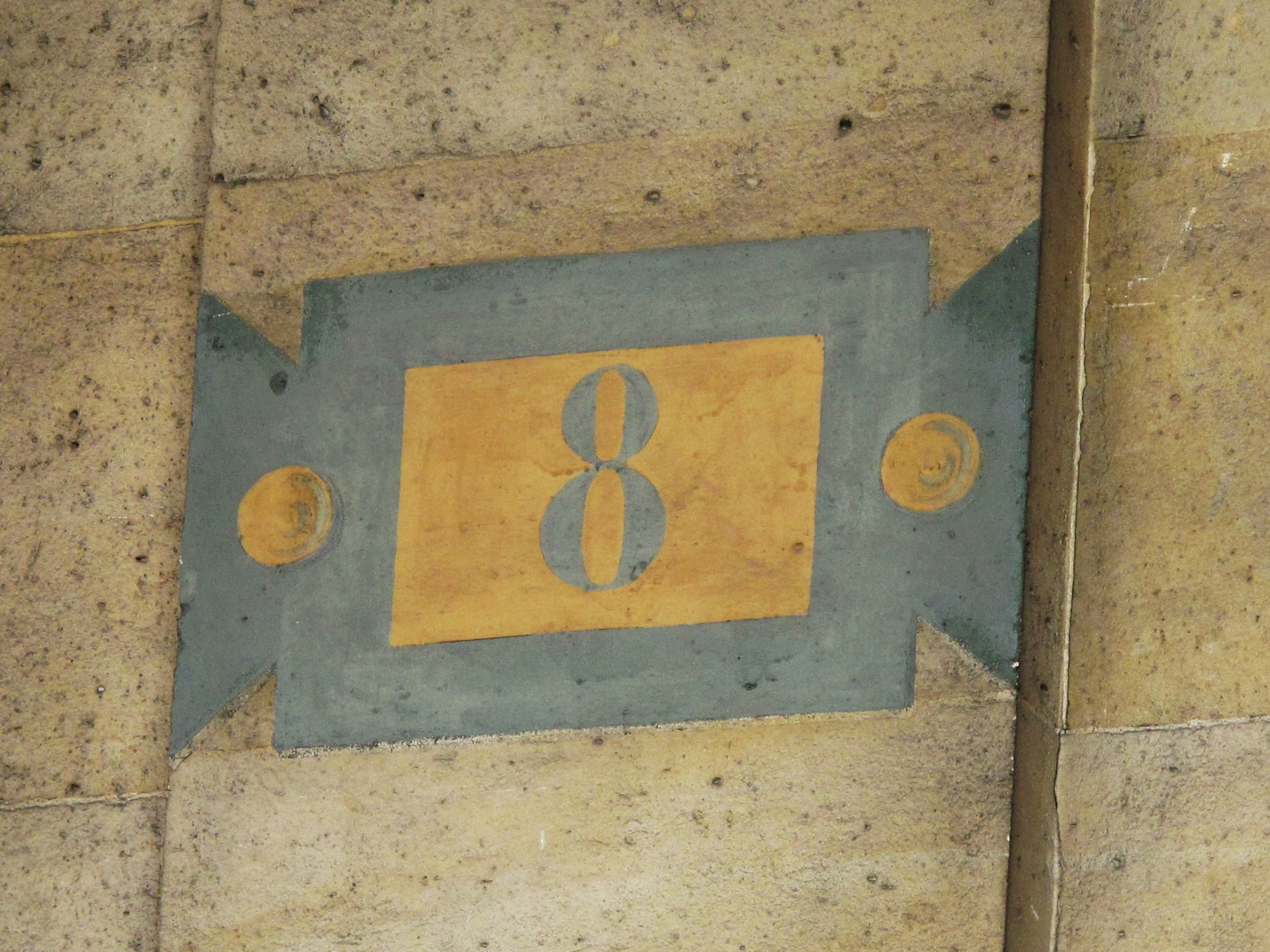 House number 8 place de la Concorde (this is the adress of the FIA : Federation Internationale Automobile). Paris 8th arr.